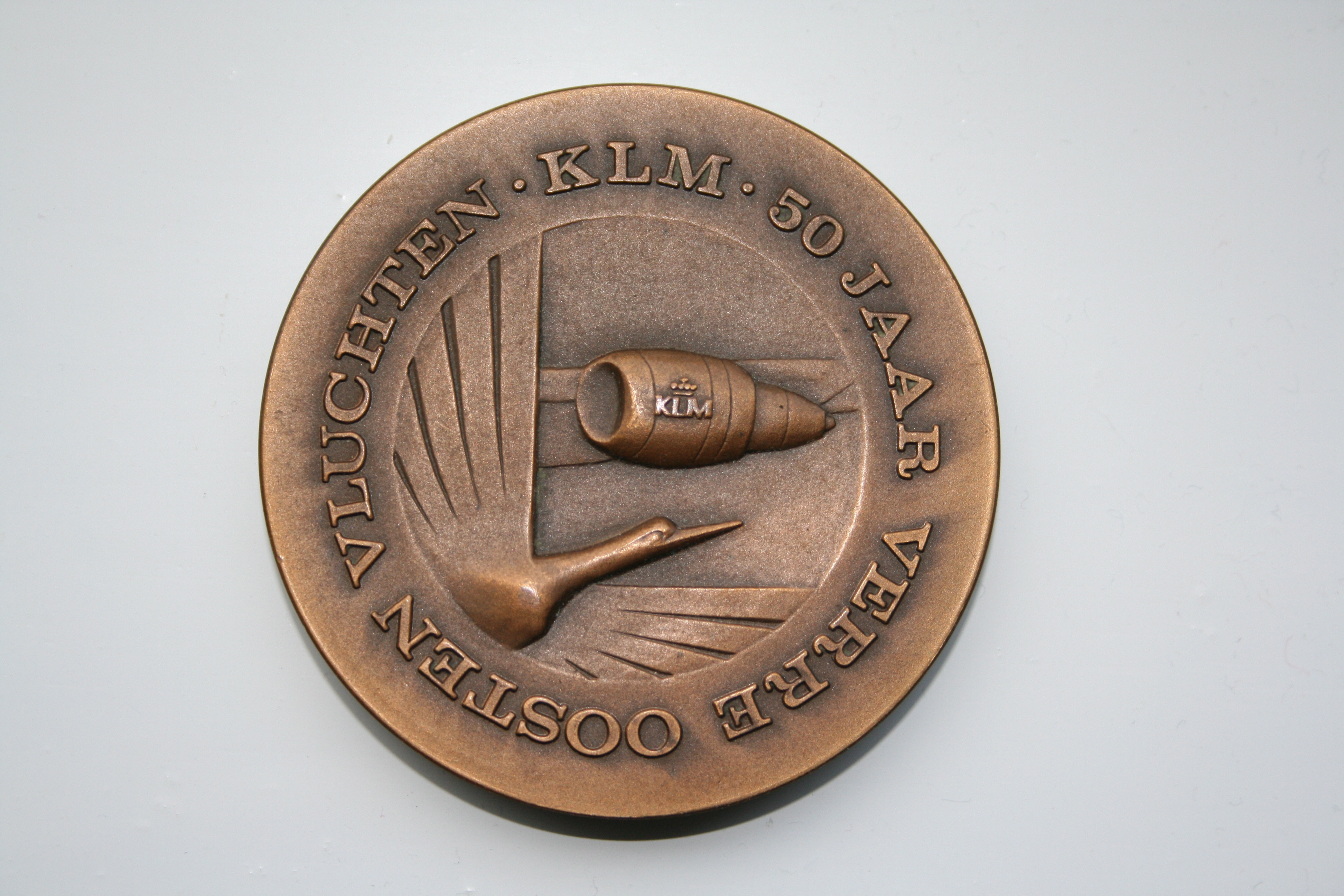 medal: 50 years since First flight KLM to Nederlands-Indië, 1974